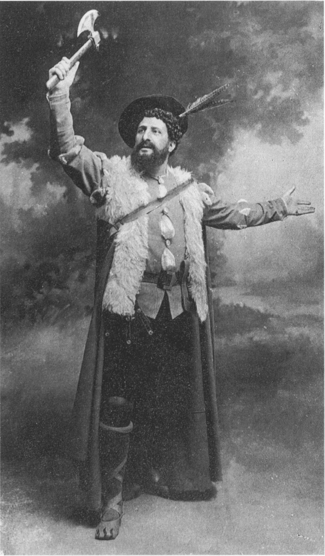 Rossini - Guillaume Tell - Mattia Battistini as Tell